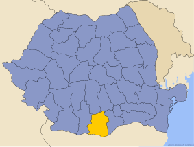 Location of Teleorman County in Romania.